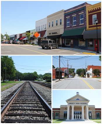 Photos I took around Liberty, SC